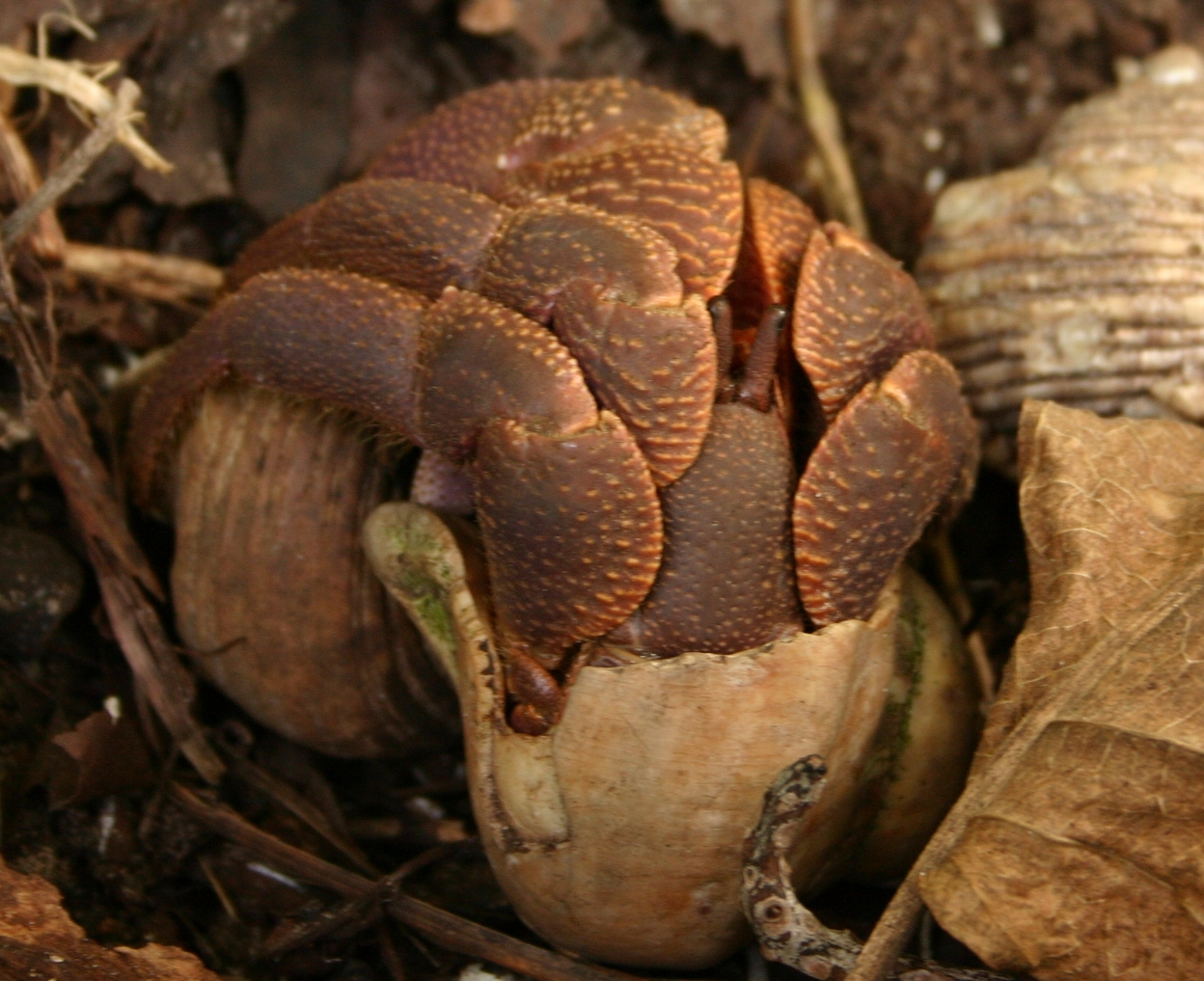 Hermit-Crab sitting in a snail-shell, picture shot on the Similan Island Number 4 “Ko Miang”, Andaman Sea, Thailand